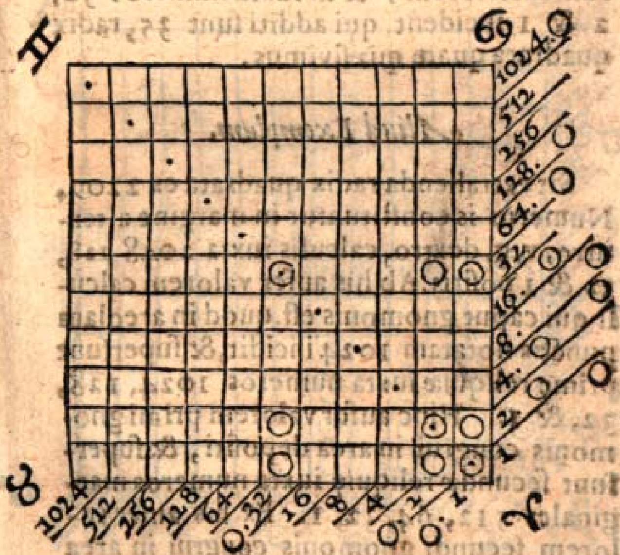 Example of finding the square root of 1238 using Napier's method for finding square roots provided in Rabdology on page 151